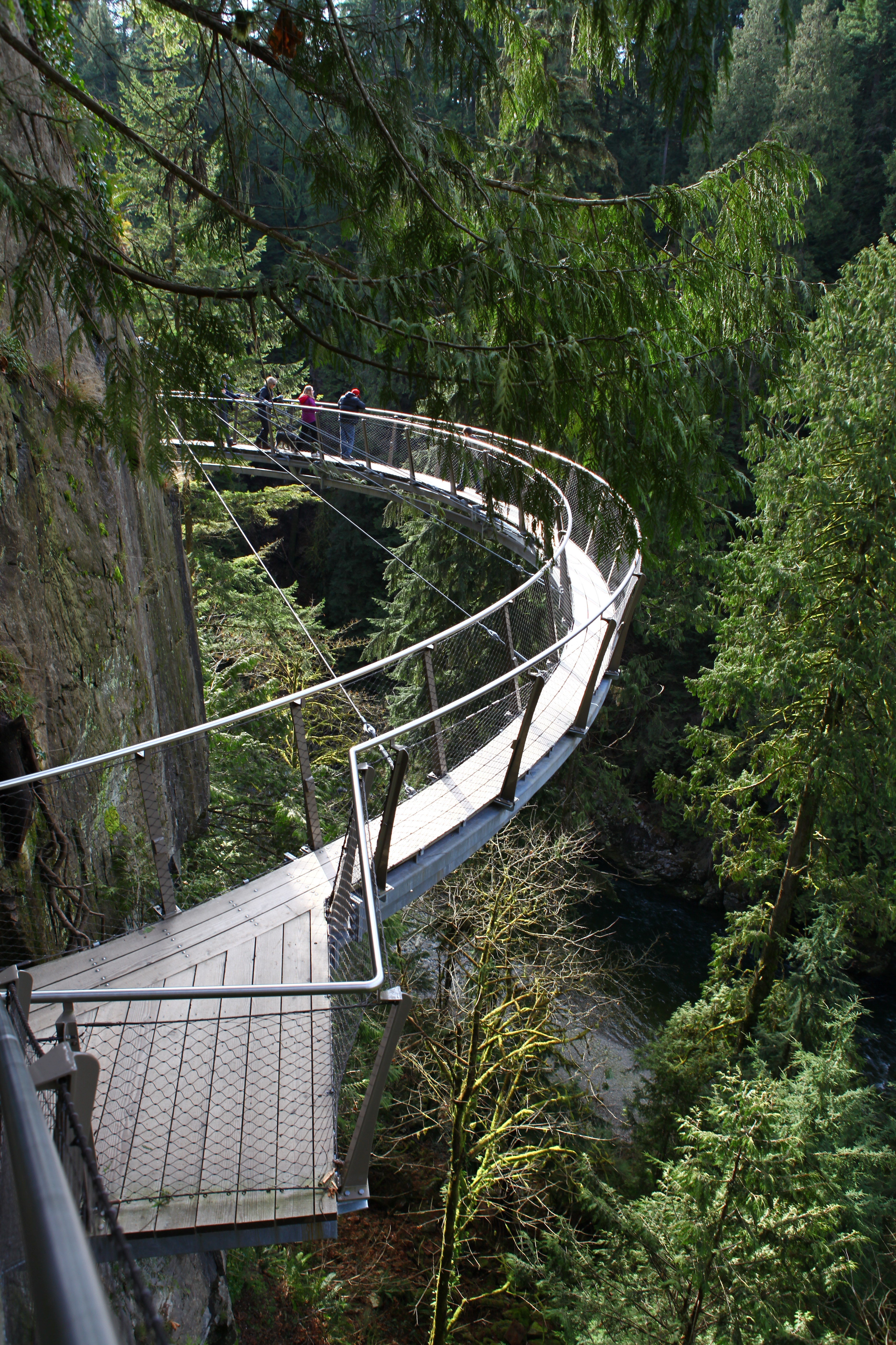 Capilano Suspension Bridge 2012 Winter